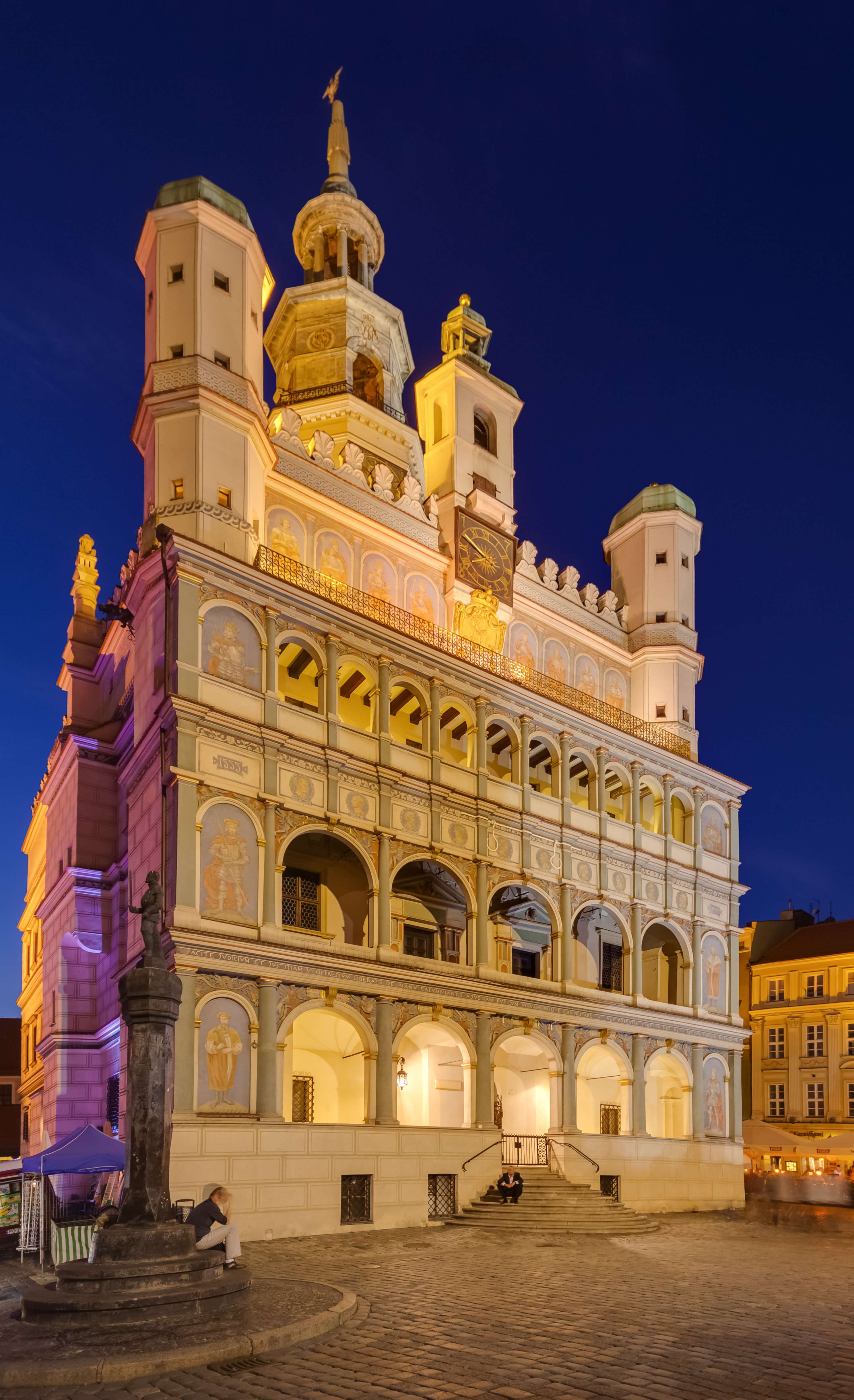 Town hall, Poznan, Poland